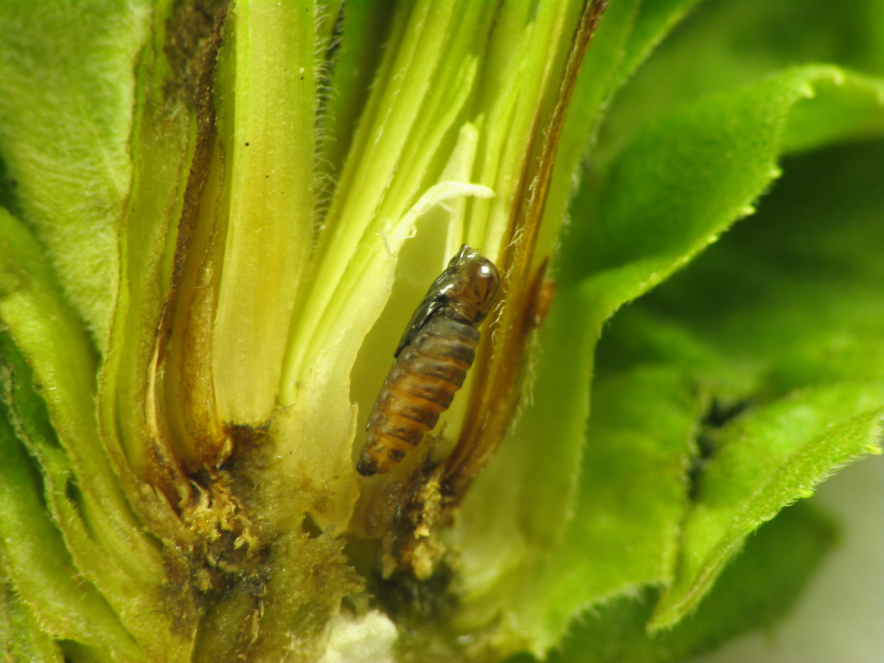 Rhopalomyia solidaginis, pupa in goldenrod bunch gall. Rancocas Nature Center NJAS, Burlington County, New Jersey, USA.